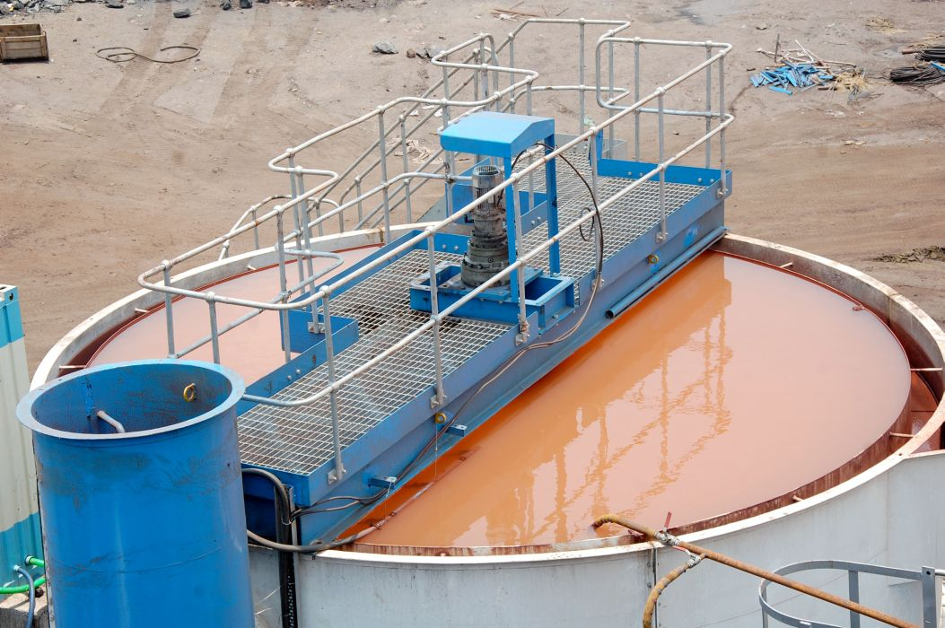 Aquacycle thickener in iron ore washing